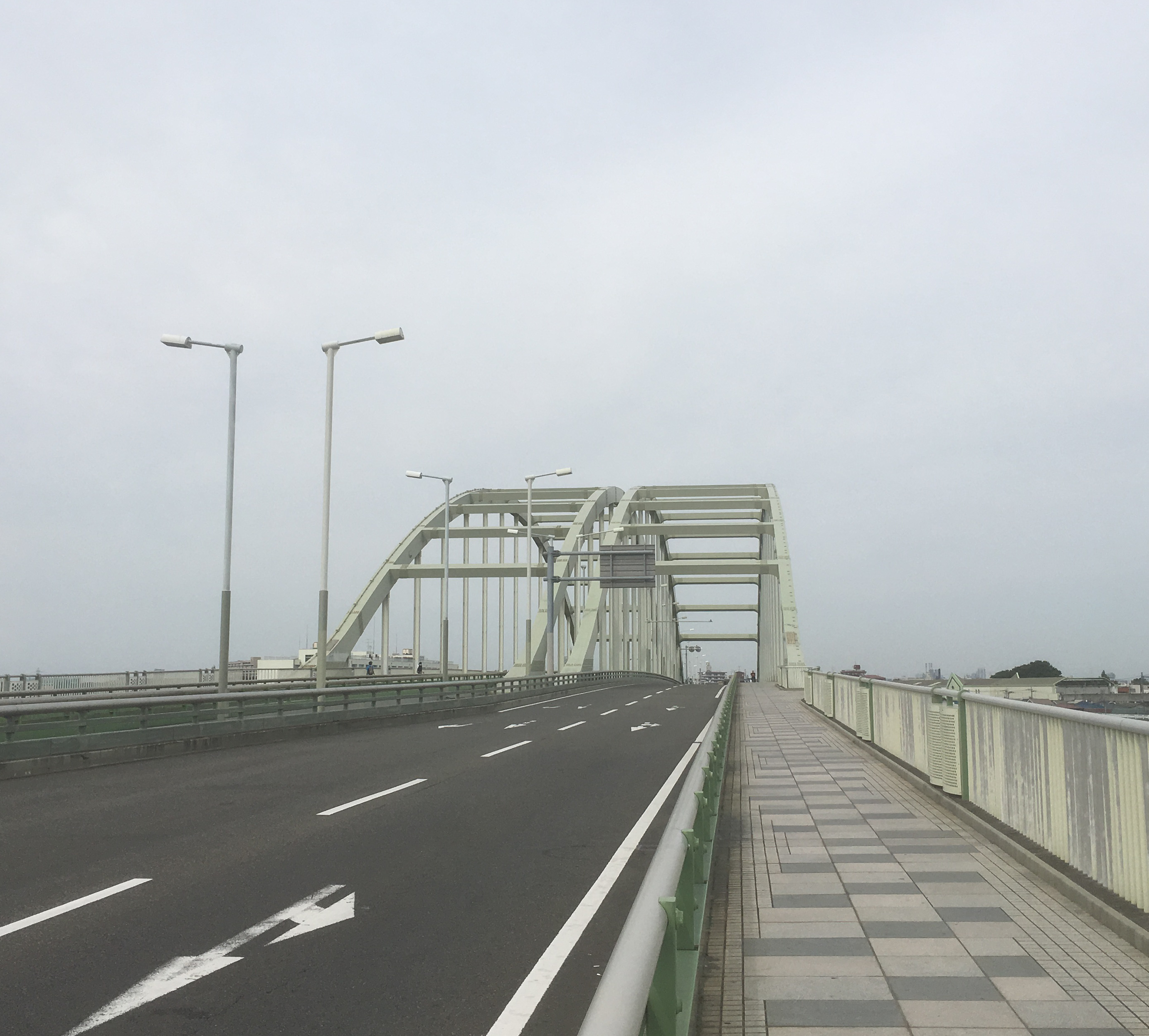 Tamasuidō Bridge seen from the southwest Ik heb de GPS coördinaten toegevoegd. De foutenmarge moet tussen ±10 meter liggen. --トトト (talk) 02:05, 6 June 2019 (UTC)